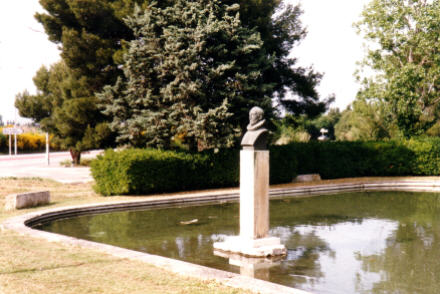 Craponne's bust and distribution basin for his canal at Lamanon, Bouches-du-Rhône, France